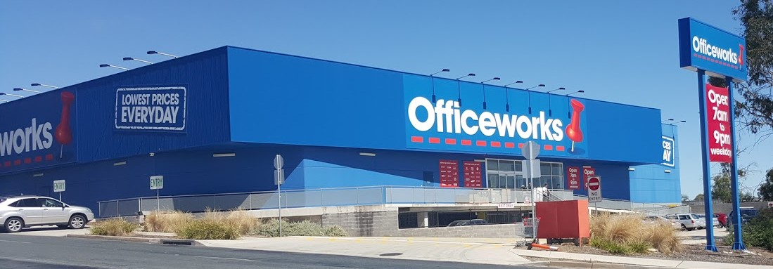 This is a picture of Officeworks Belconnen. The best Officeworks in Canberra.